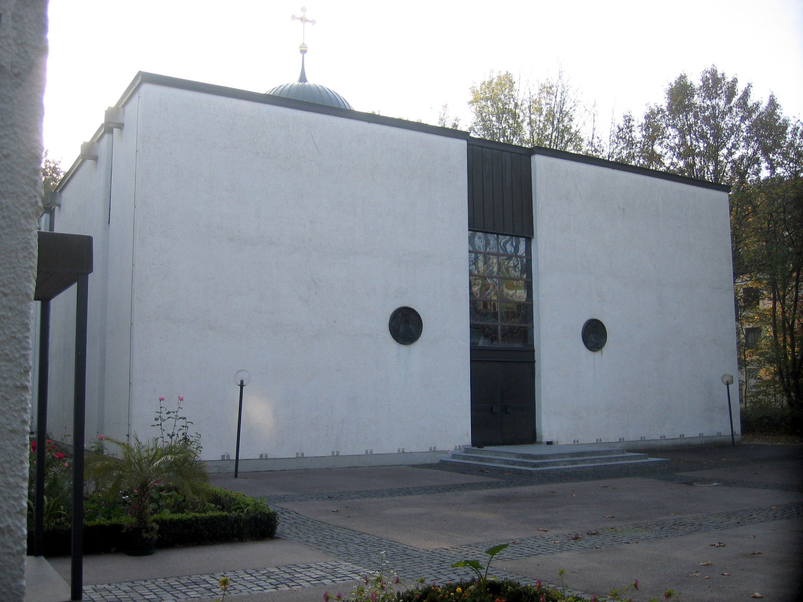 Cathedral of the Apostolic Exarchate for the catholic Ukrainians "Maria Schutz und St. Andreas" in Untergiesing, Munich, Germany